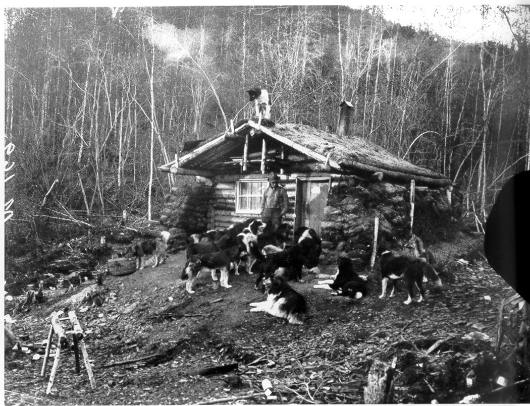 Cabin on the Yukon Flats, 1901